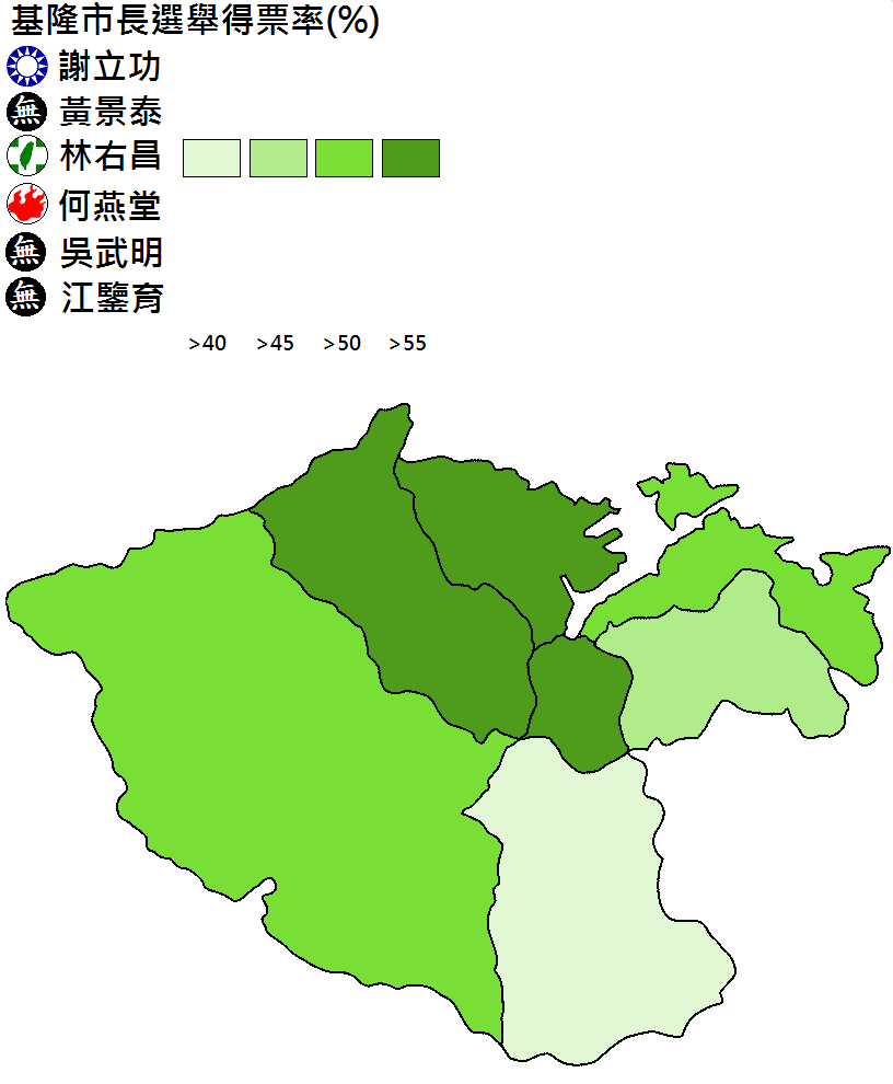 Keelung provincial 2014